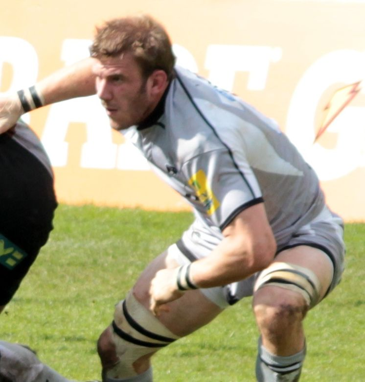 Tom Croft playing for Leicester Tigers in 2012.